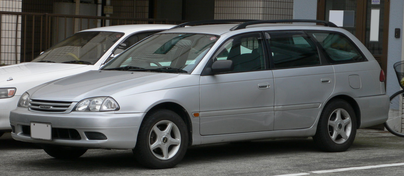 2nd generation Toyota Caldina (200/1 - 2002/9)